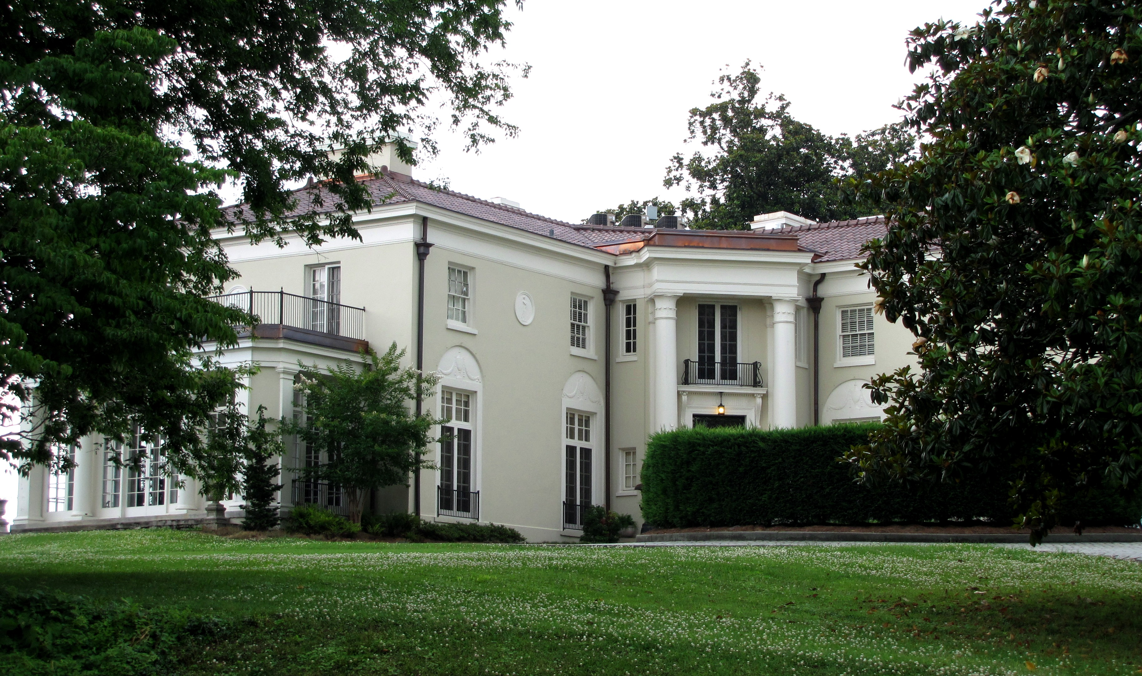 Crescent Bluff (3106 Kingston Pike) in Knoxville, Tennessee, USA. Built in 1915, this house is now listed on the National Register of Historic Places as the H. L. Dulin House (Dulin built it).